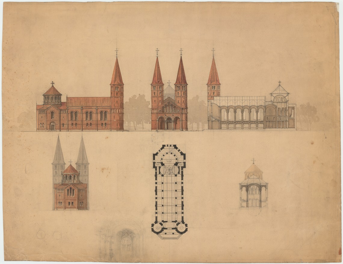 Non-final design proposal for the Hesus Church in Valby, Copenhagen, Denmark